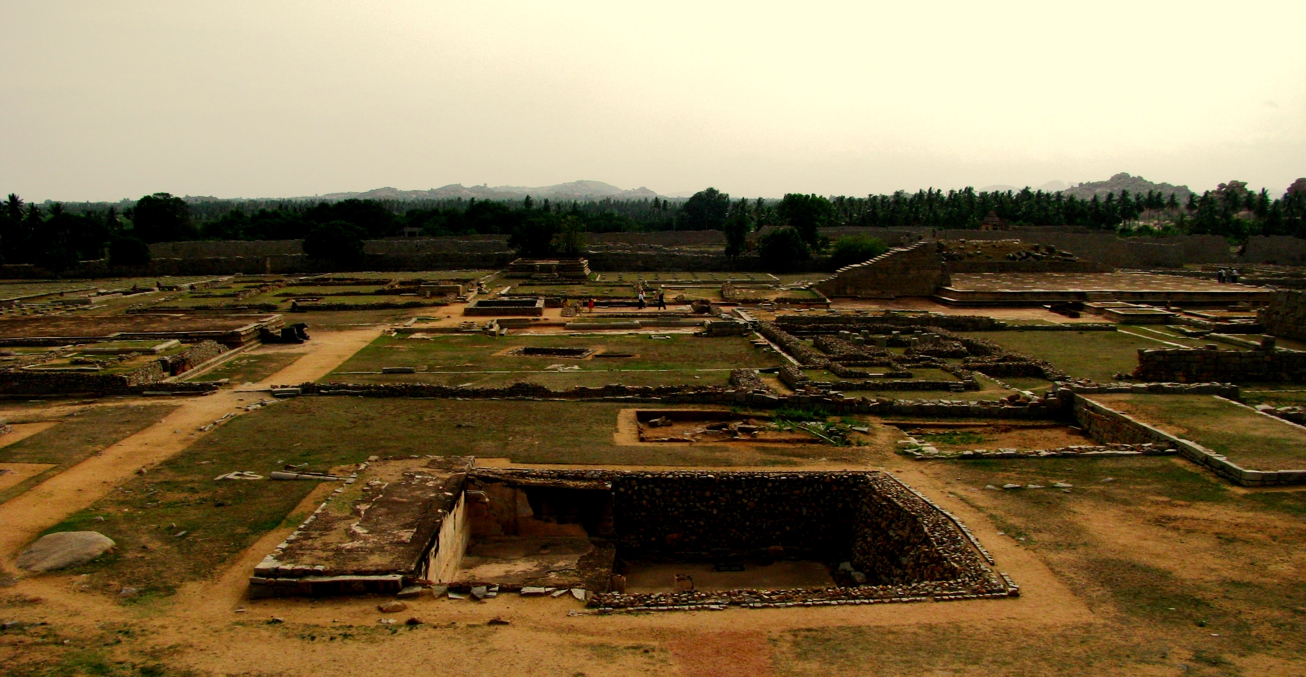 Ruins of the royal palace at Hampi.